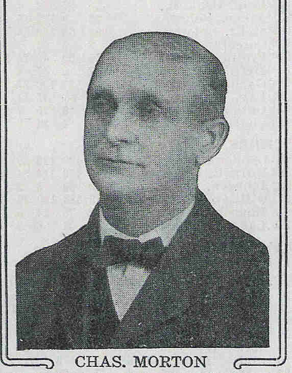 Charles Morton, founder of Ohio-Pennsylvania League